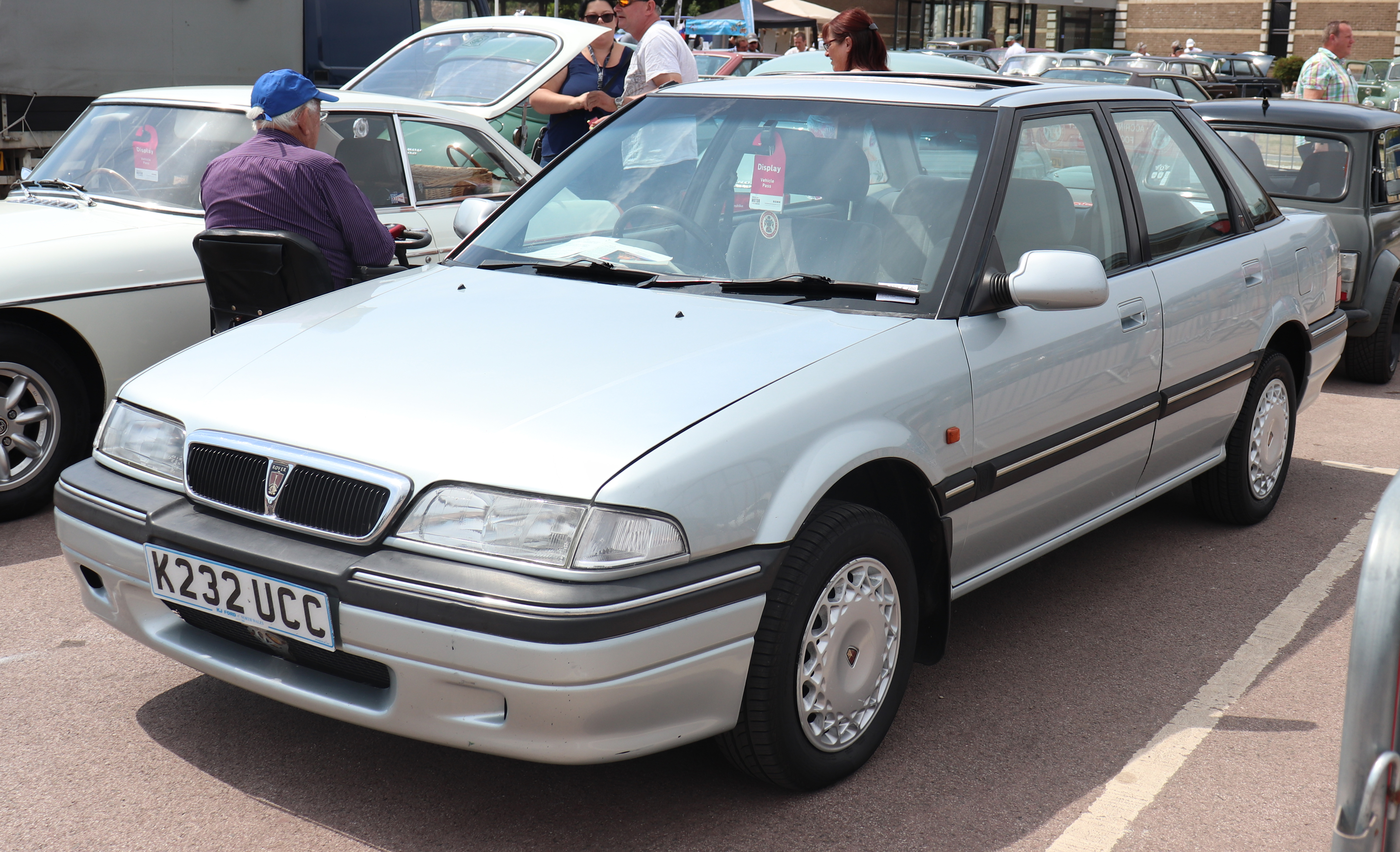 1993 Rover 416 GSi Automatic 1.6 Front Taken at the British Motor Museum BMC & Leyland Show 2018, Gaydon